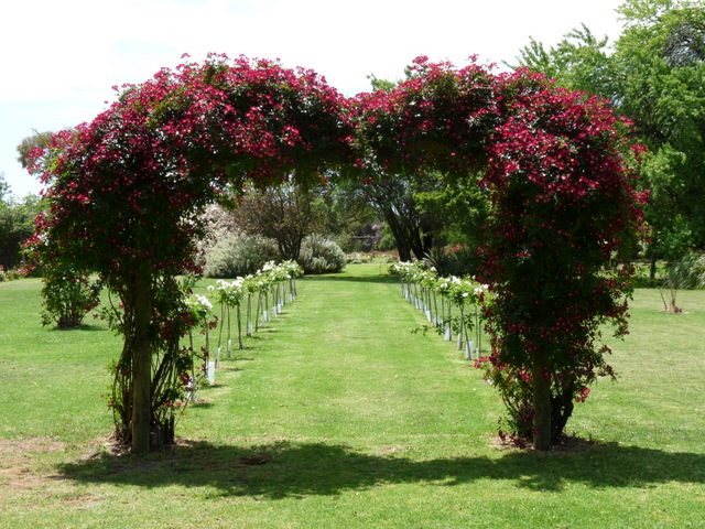 A view of Ruston's Rose Garden at Renmark, South Australia